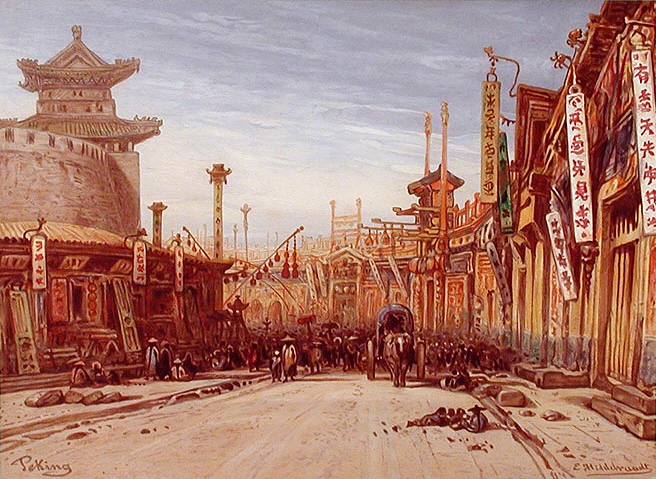 Round Street, Beijing